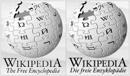 Comparative. Logos of the English and German Wikipedia